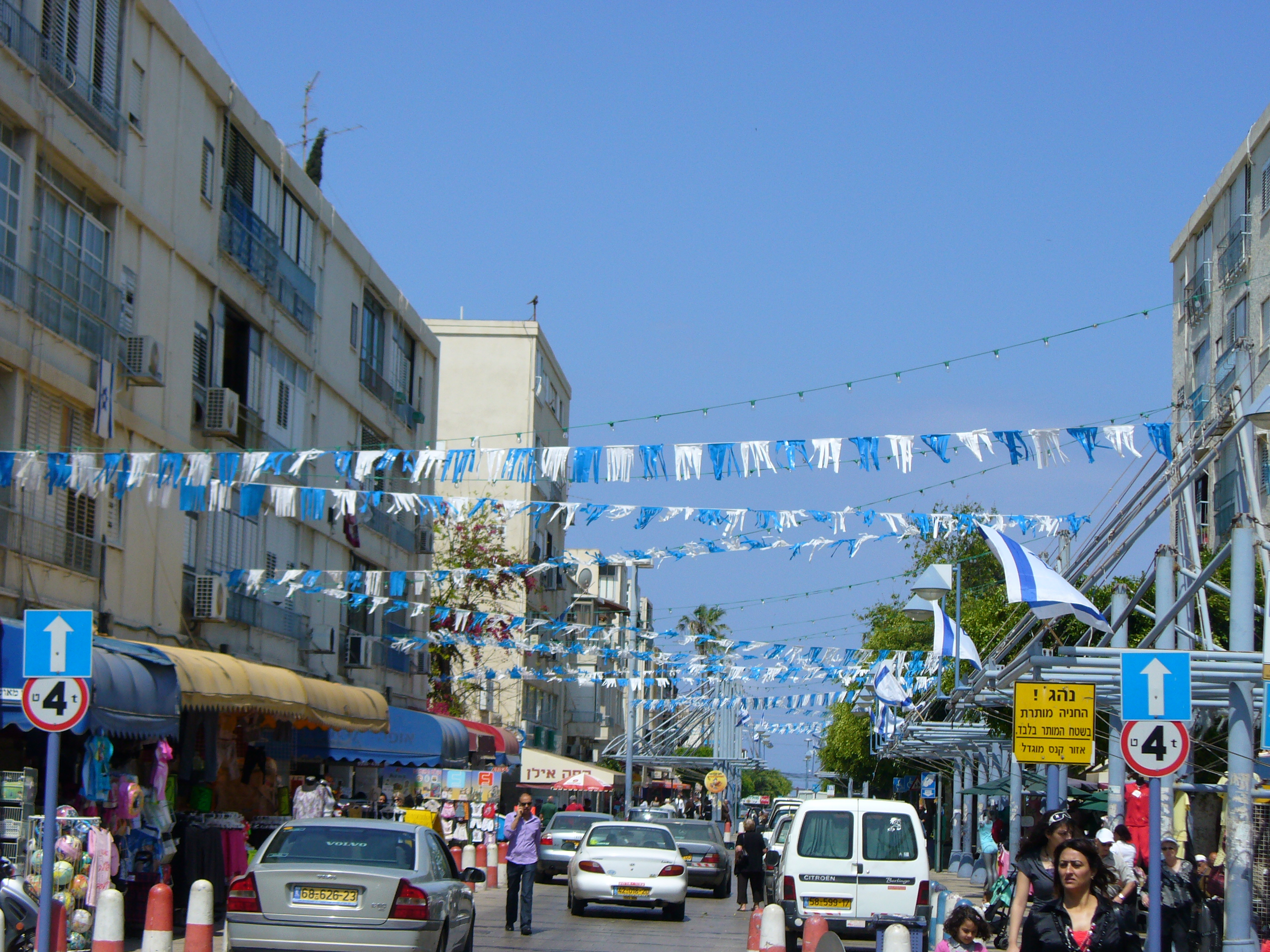 Ben Ami Pedestrian zone, Akko, Israel